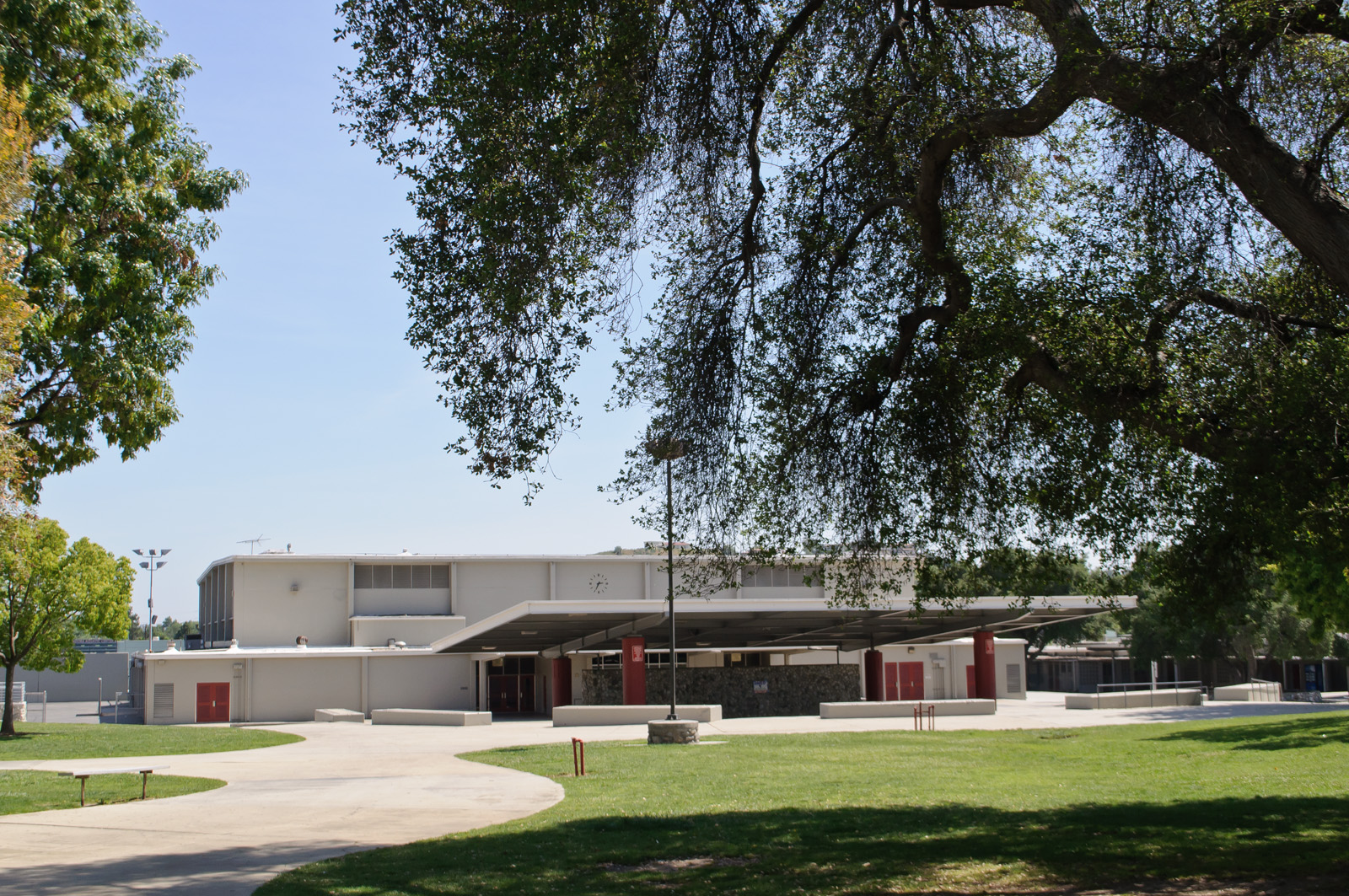 Glendora High School serves the City of Glendora, which is located along the old Route 66 at the eastern edge of San Gabriel Valley. Due to the Route 66 location, this community is older than most other San Gabriel Valley communities; Glendora High School was established in 1958. This is a quite lovely campus, I must say. My favorite (and usual) singer-songwriter, Anna Nalick, is a graduate of Glendora High School, though she had started her high school education on the other side of town, at St. Lucy's Priory High School. That covered area is an outdoors amphitheater. Between the trees and the landscaping, this campus is quite pleasing and photogenic.